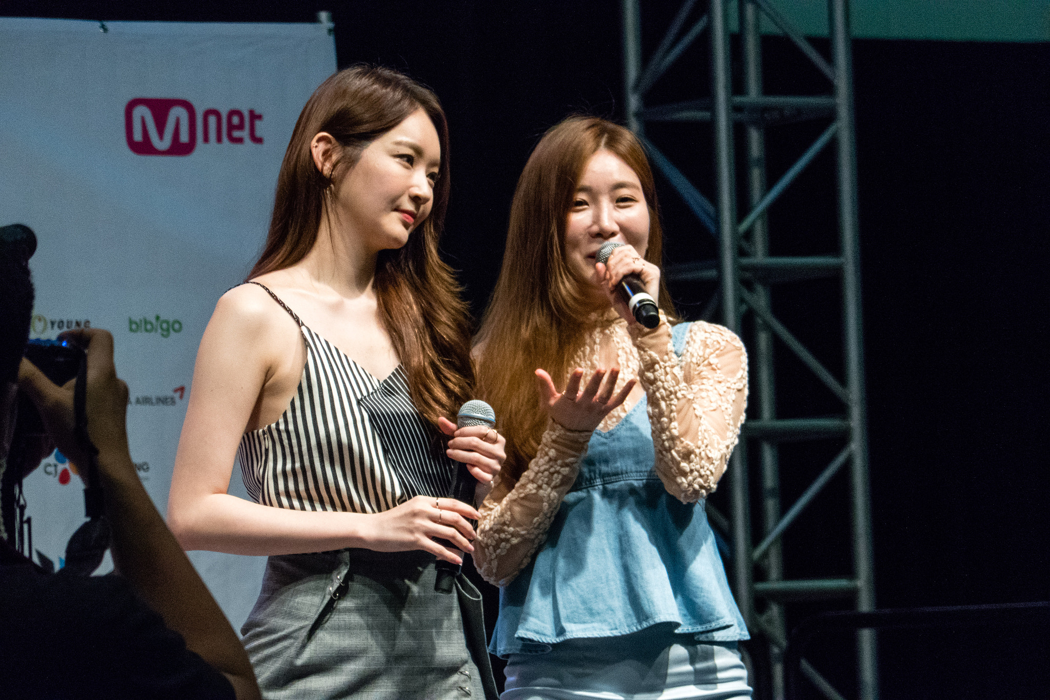 500px provided description: Davichi Fan Engagement Kcon 2016 [#kcon ,#Davichi ,#kcon16 ,#???]